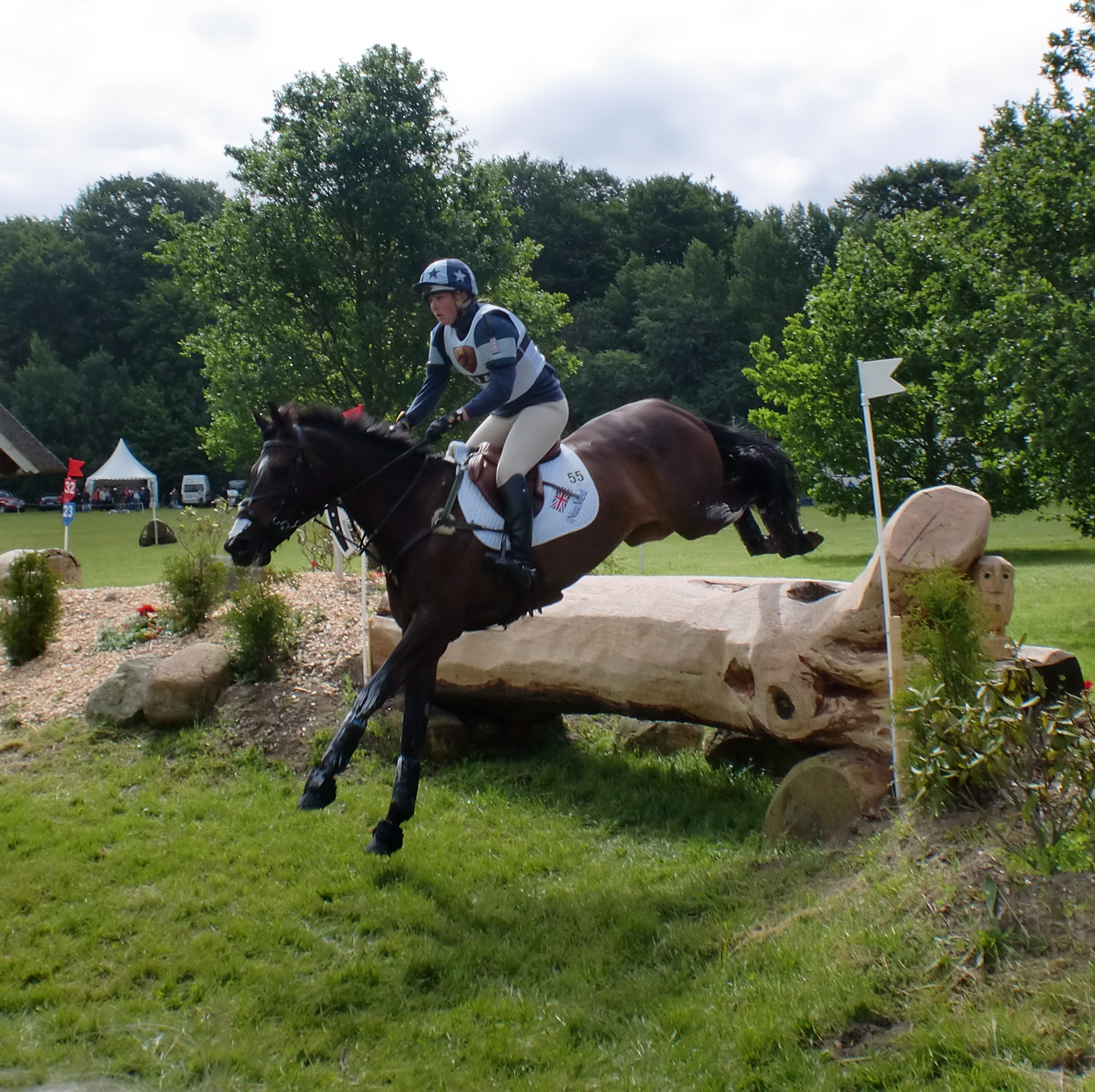 Lucy Wiegersma and Granntevka Prince, CCI**** Luhmühlen 2010, Germany, fence 1